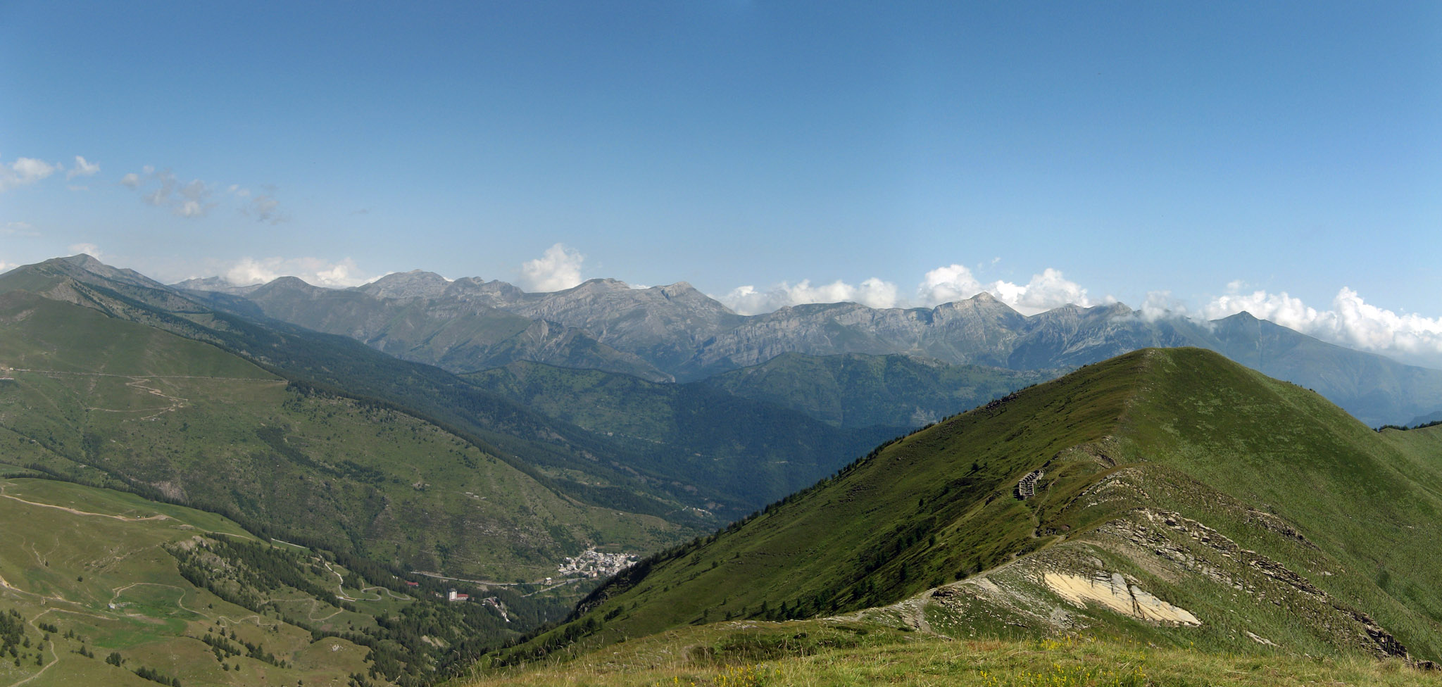 Landscape on Maritime Alps (Marguareis, Mongioje and Pizzo d'Ormea) as seen from the grassy top of Monte Frontè, in Liguria - down below, the Piaggia village